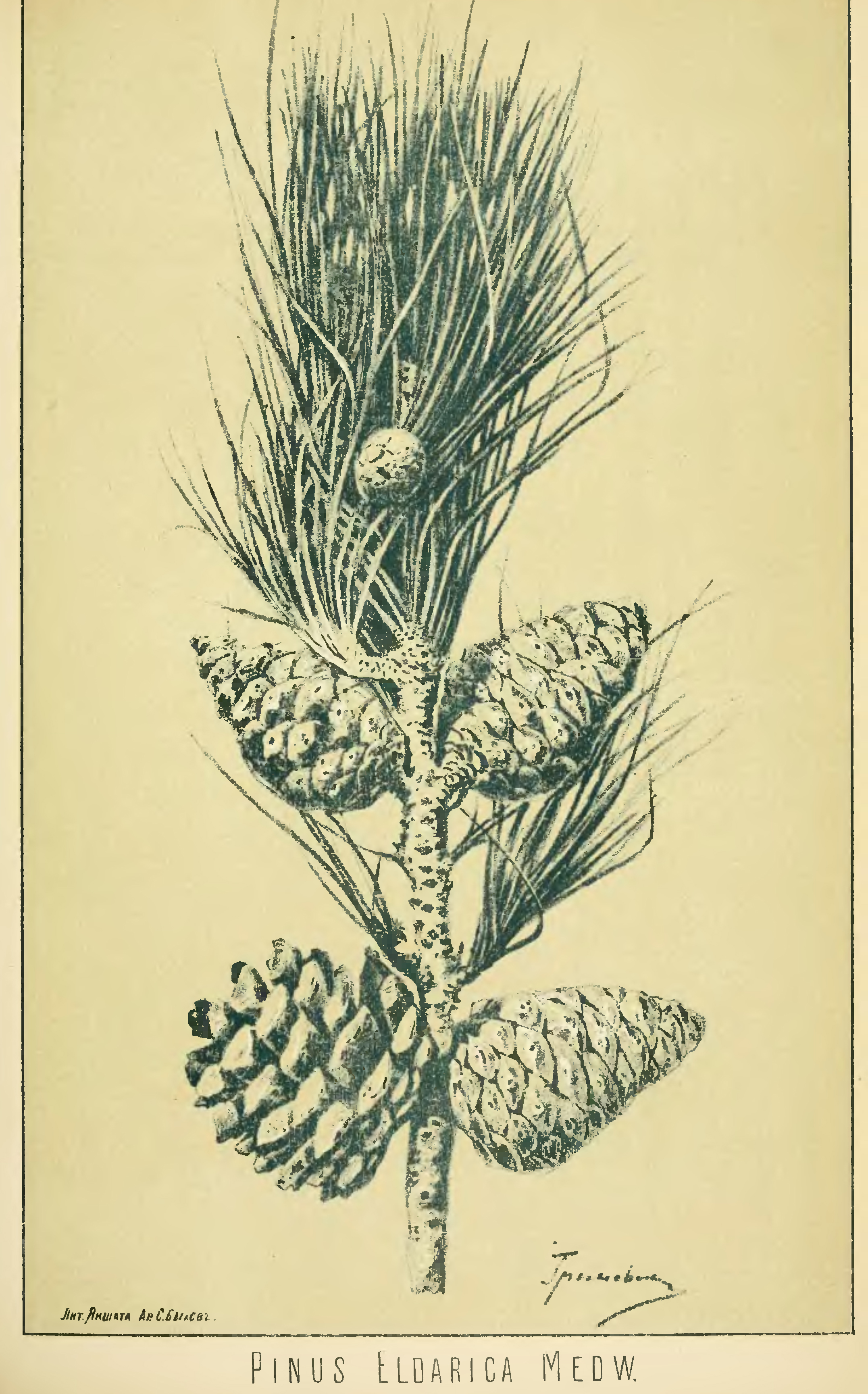 Pinus eldarica Medw., = Pinus brutia subsp. eldarica (Medw.) Nahal